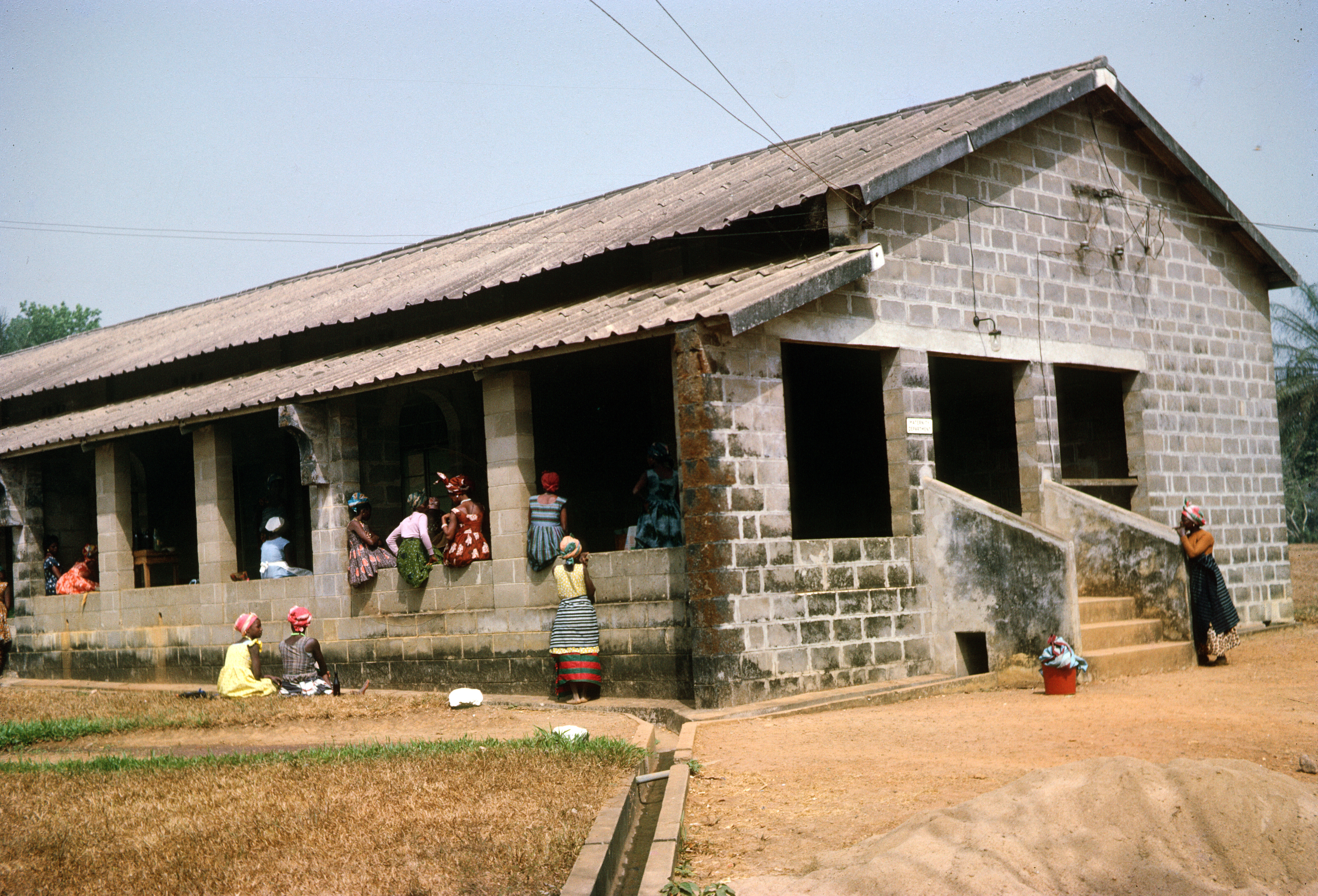 Maternity Ward, Nixon Memorial Hospital, Segbwema, Sierra Leone, Feb 1962